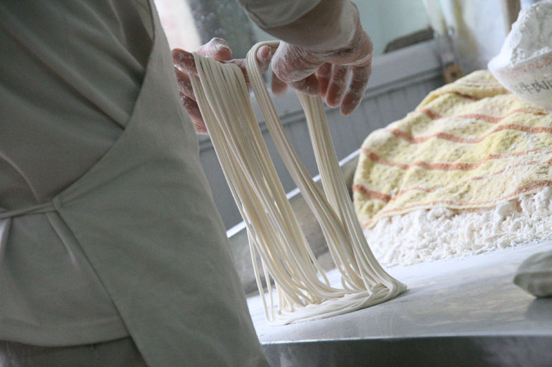 Photographed by Kenneth Chan.